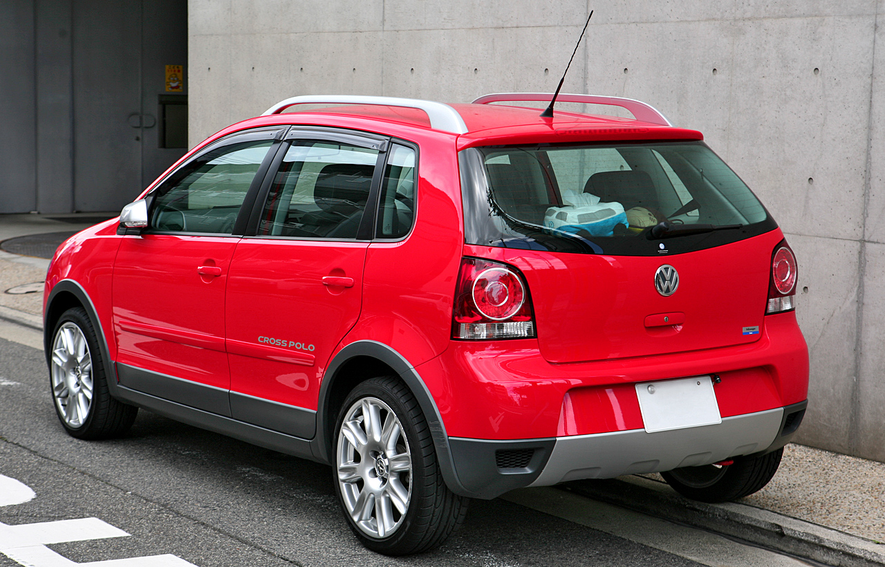 '08 Volkswagen Cross Polo